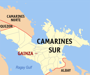 Map of Camarines Sur showing the location of Gainza